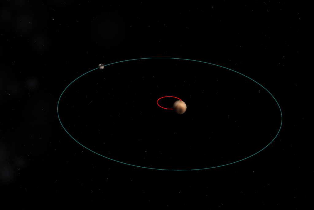 The Pluto–Charon system. Charon's orbit around Pluto is shown in green. Pluto's orbit around the Pluto–Charon system barycentre is shown in red. This shows that Pluto orbits a point outside itself. This is why Pluto and Charon are sometimes considered to be a double dwarf planet. The three small satellites of the Pluto–Charon system, Nix, S/2011 P 1, and Hydra, are not shown. The image is probably a side view rather than a top view.